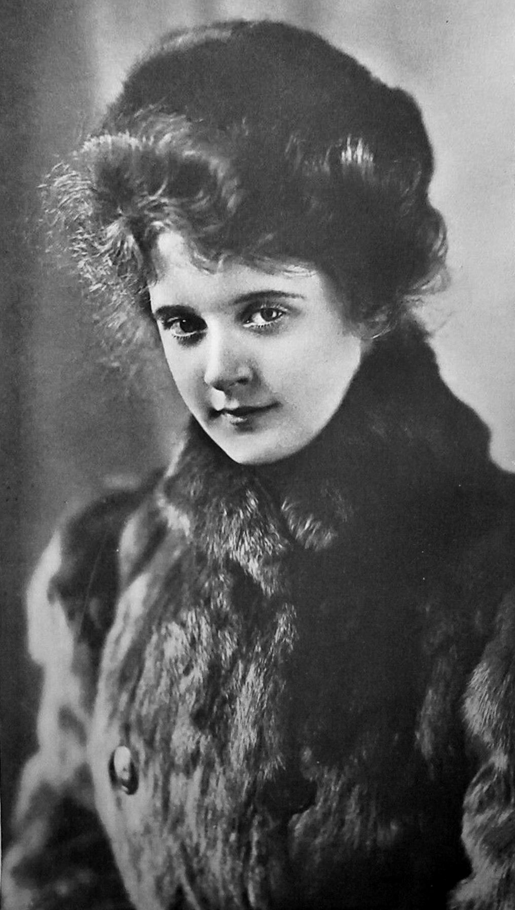 Billie Burke, American actress, early in her career